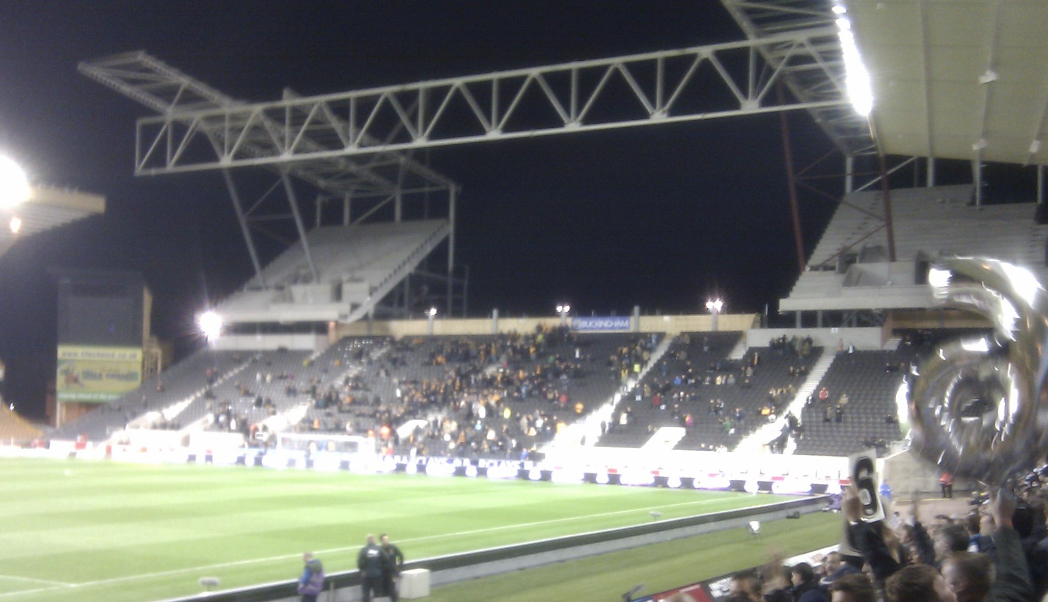 The partially built Stan Cullis stand at Molineux Stadium, Wolverhampton in October 2011.